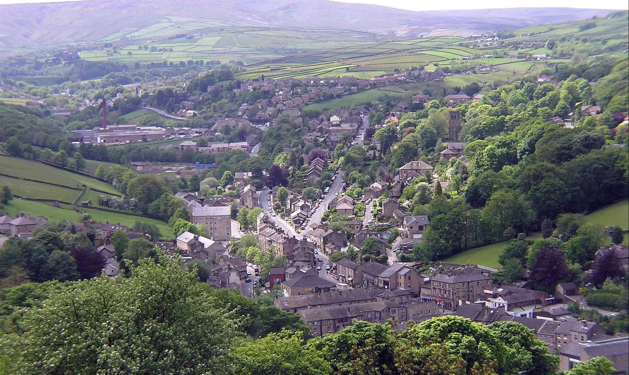 View of Holmfirth from Cliffs above Cliff Road, view is taken facing southwest. The A6024 (Woodhead Road) goes from the centre of the village to the top left of the photo